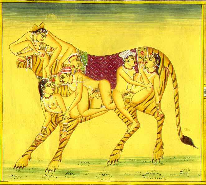 Kama Sutra Illustration